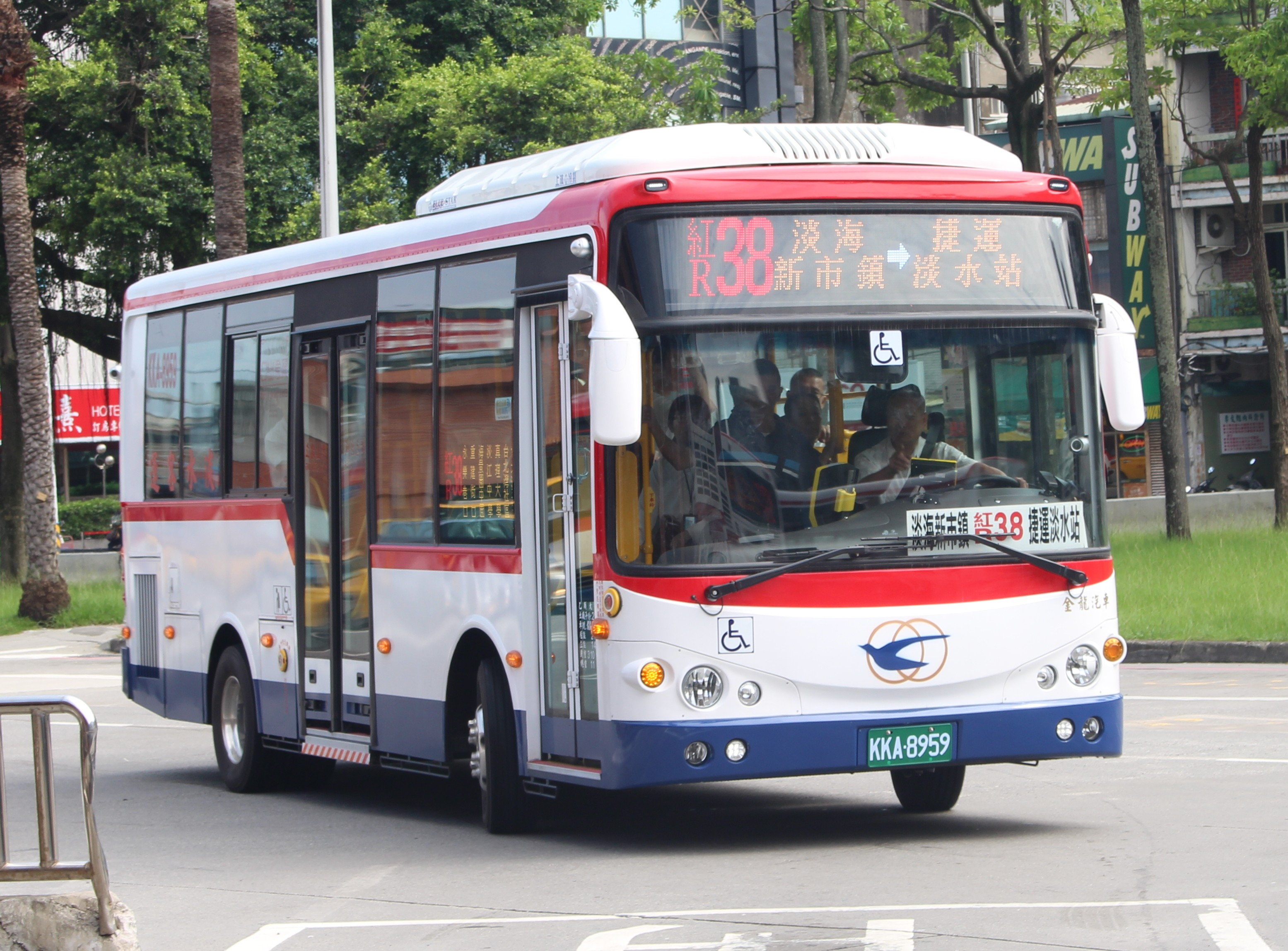 Tamshui Bus KINGLONG KL6850A3 KKA-8959 R38